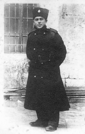 Member of the Jewish Supernumerary Police Winter Uniform(Ghaffir).